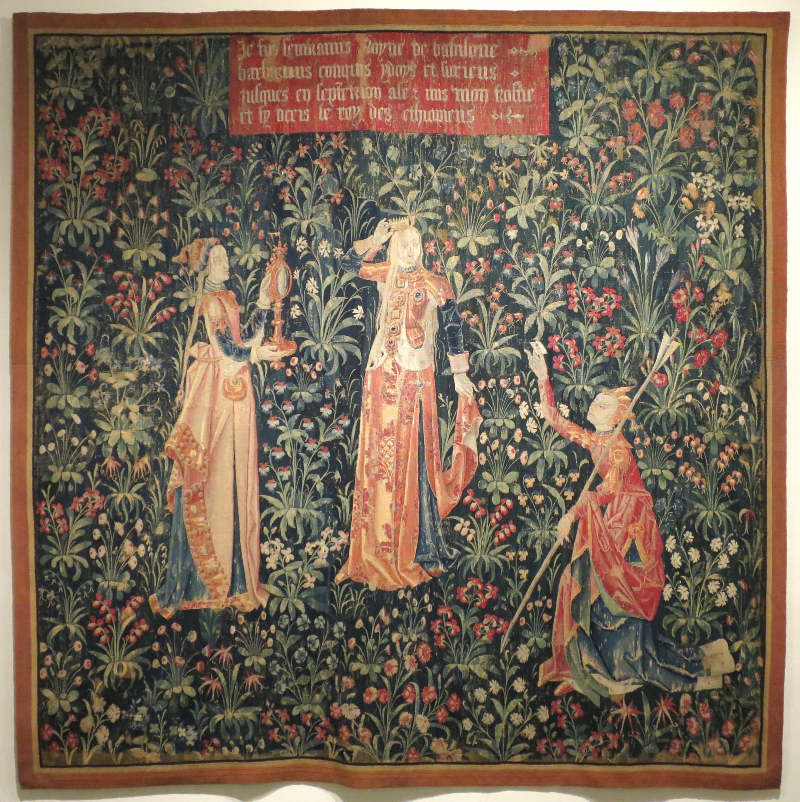 Millefleurs tapestry of Queen Semiramis with her servants from Tournai, Flanders, c. 1480, wool, silk, tapestry weave, Honolulu Museum of Art accession 325.1